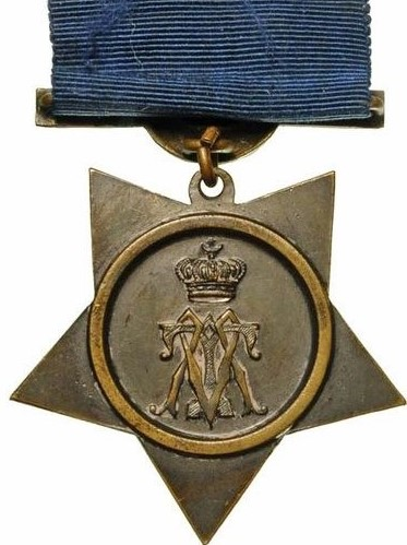 Khedives Star Reverse